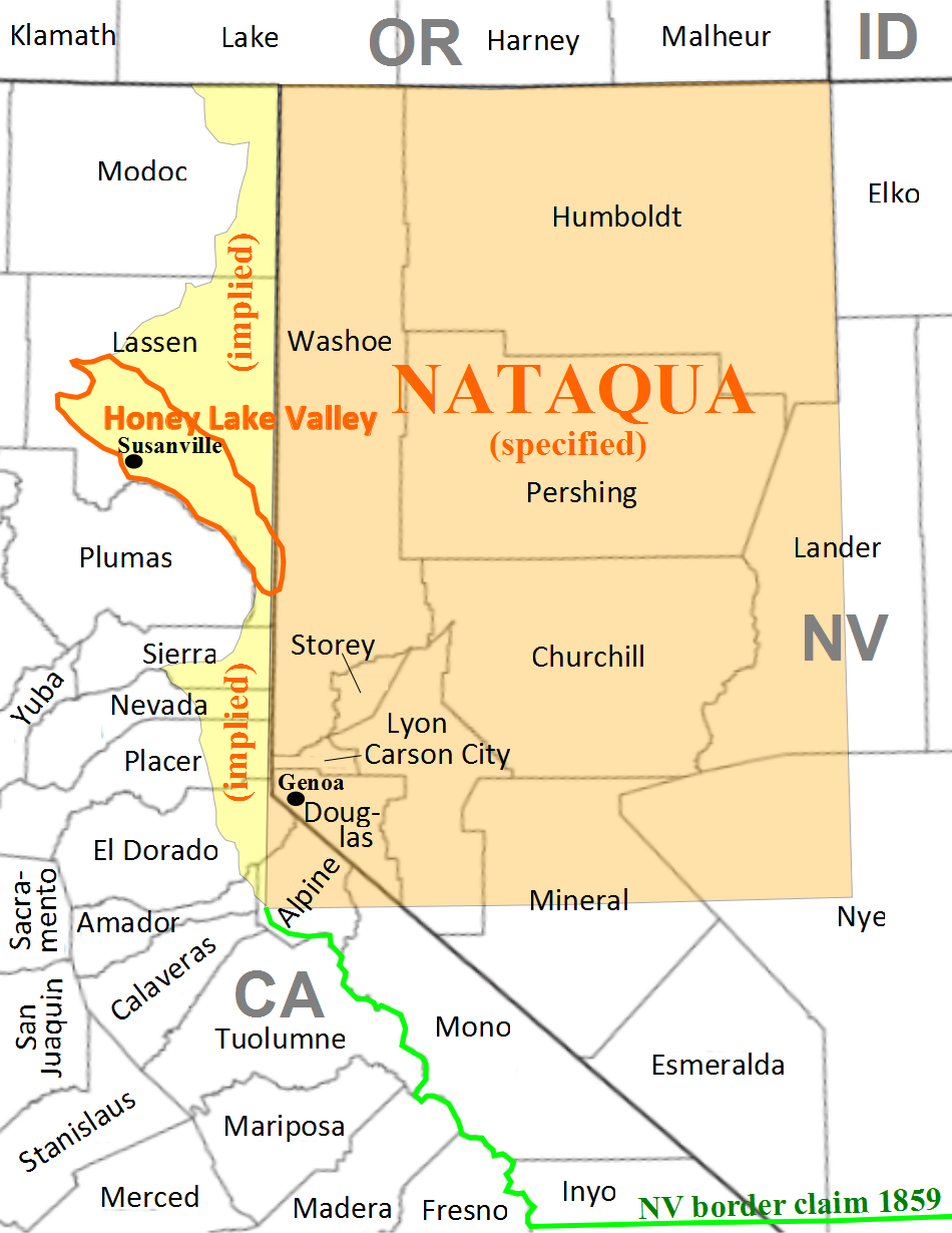 Map of Nataqua Territory, a provisional territory in western Nevada, and northeast California 1856-1861.